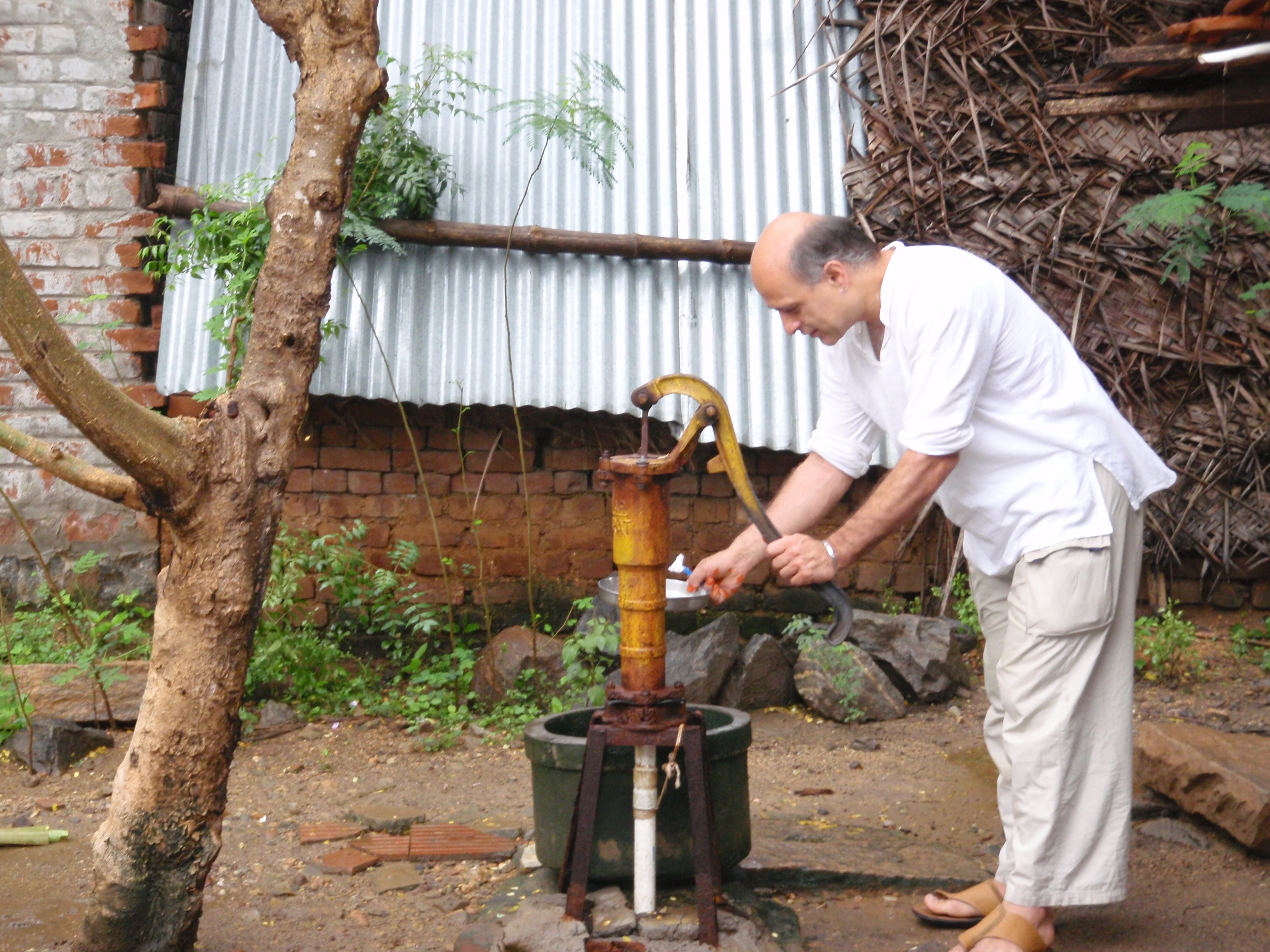 There is more need of ecosan to prevent ground water from human excreta contamination - the family of this house in (Mussuri, Trichy near Chennai) has one! Photo P Bierwirth